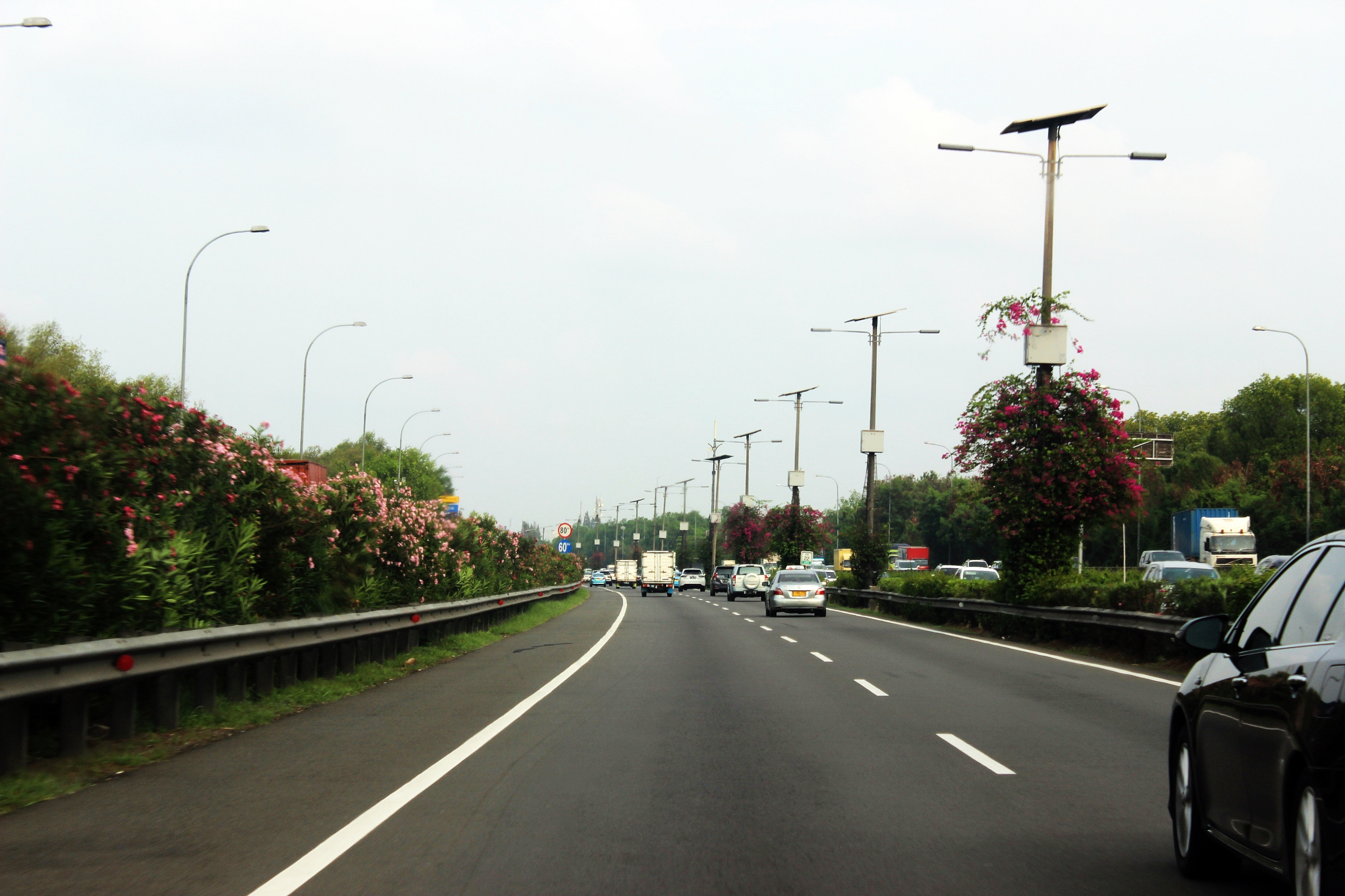 Prof. Dr. Ir. Soedijatmo Toll Road KM 22+800, to Pluit, Jakarta, Indonesia